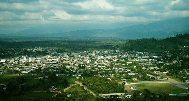 Panoramic picture of La Maná city